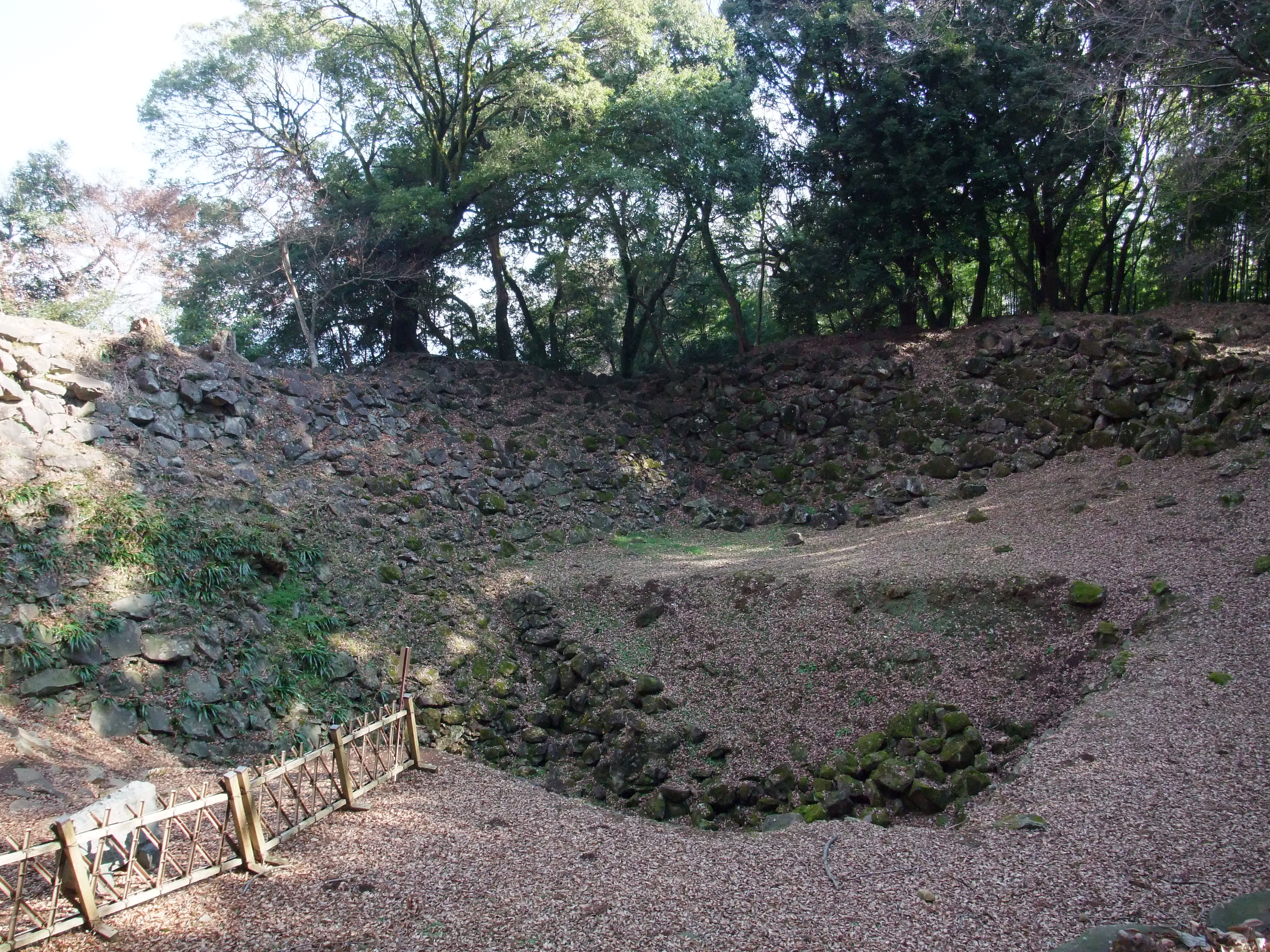 Ido-kuruwa (Water well) of Ishigakiyama Castle in Odawara-shi, Kanagawa